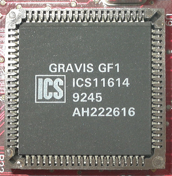 A Gravis GF1 sound chip, used on Gravis Ultrasound sound board.